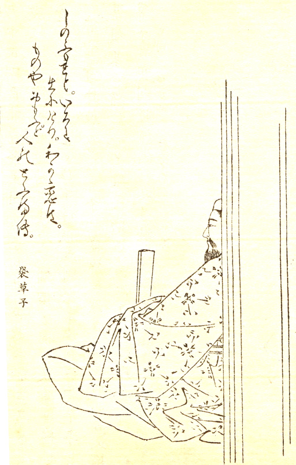 Taira no Kanemori (平兼盛) was an early Heian waka poet and nobleman.This picture was drawn by Kikuchi Yosai（菊池容斎） who was a painter in Japan.